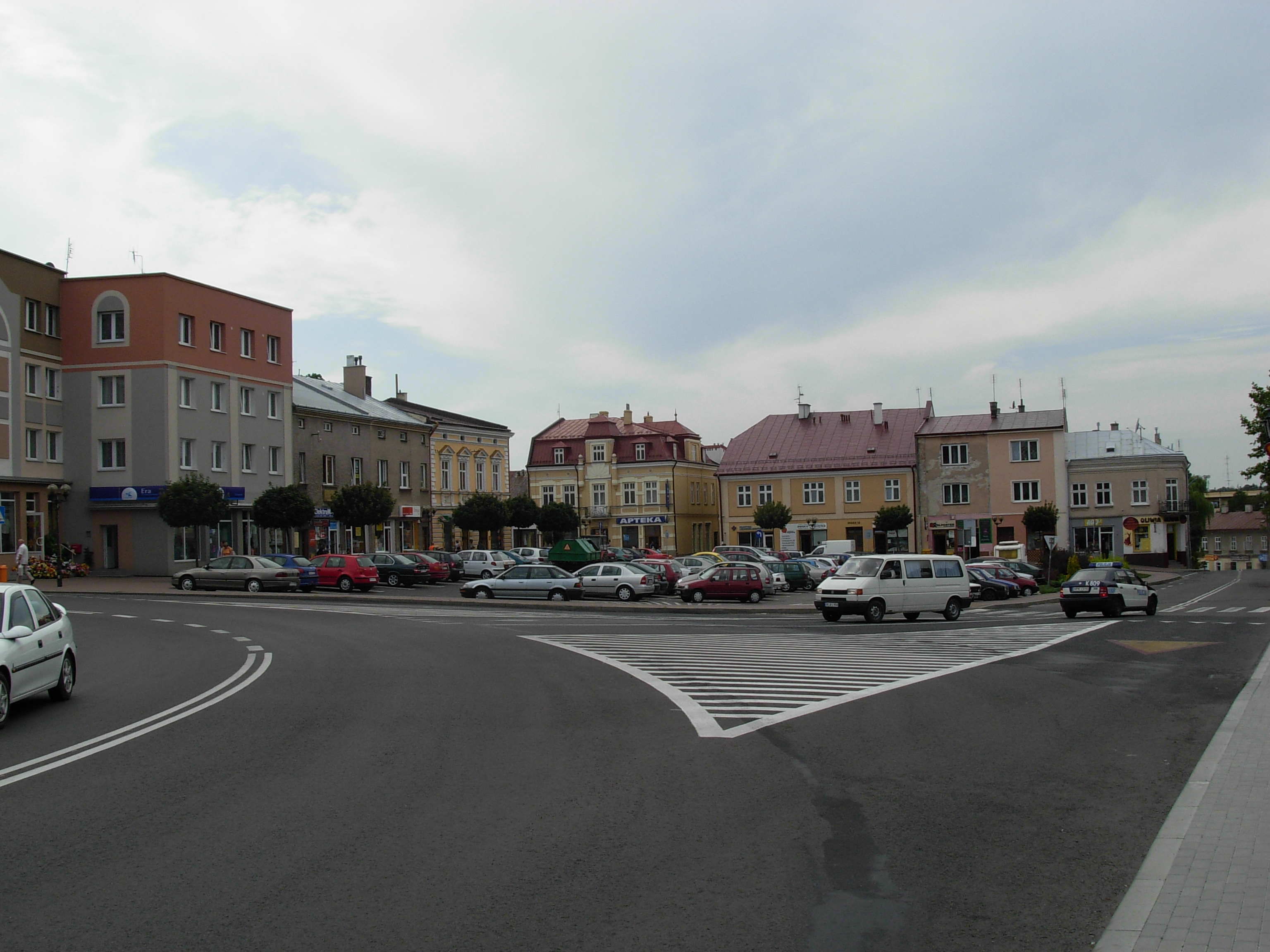 Łańcut Castle and neighbourhood. Many photos courtesy of Łańcut Museum staff.